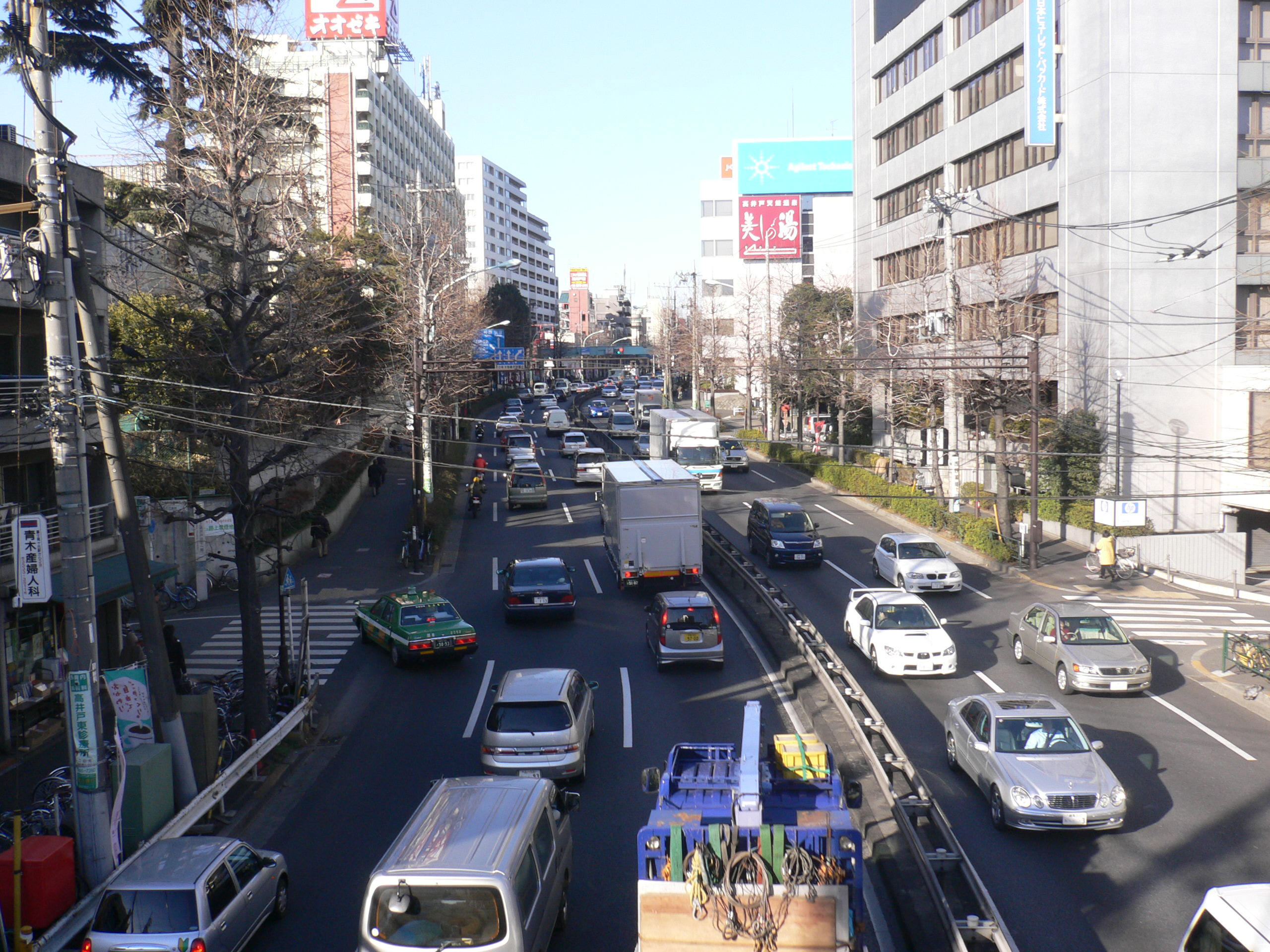 Tokyo metro road no.311 (環八通り) & Takaido Station (高井戸駅), Suginami W, Tokyo M.